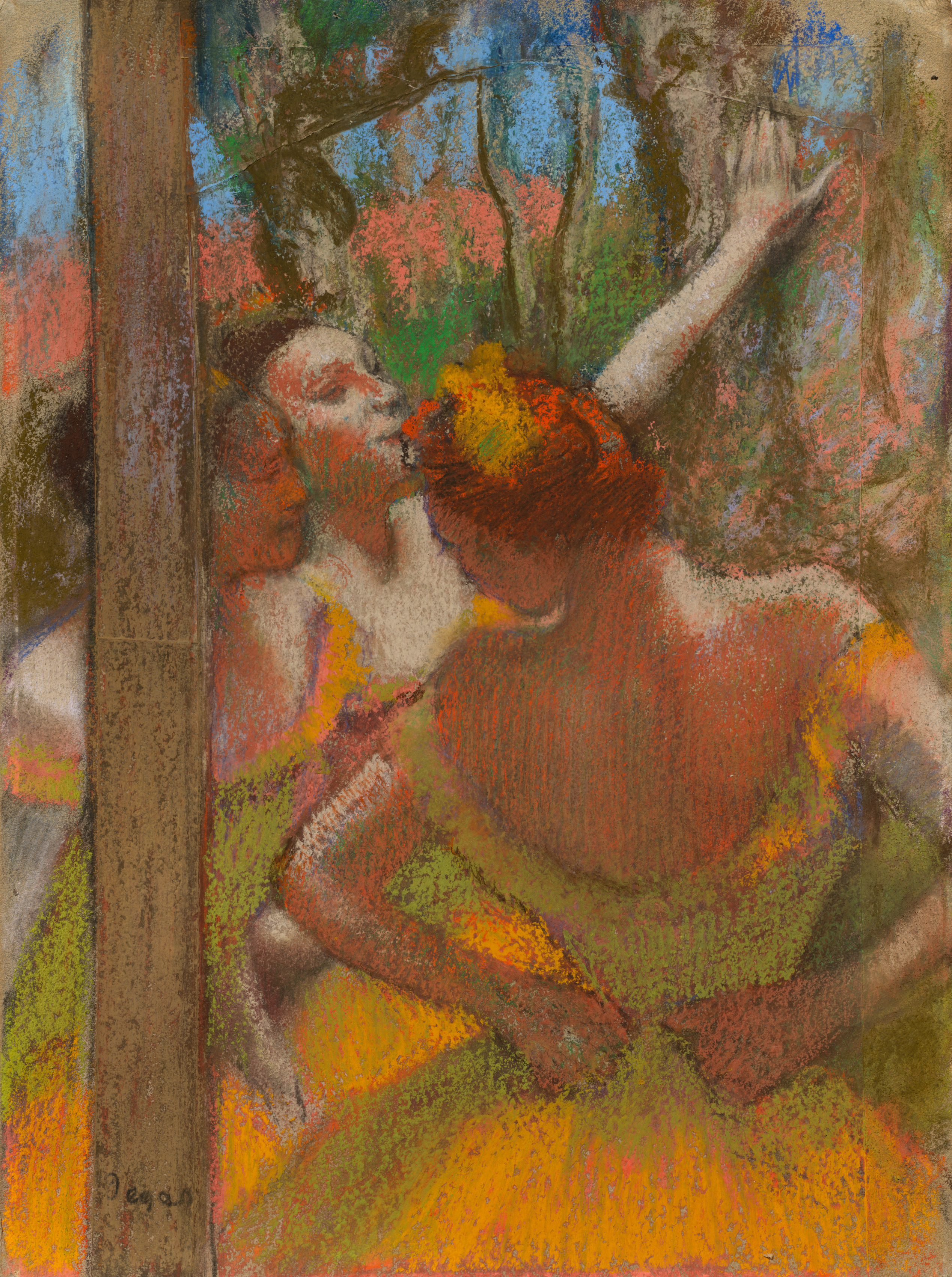 Degas depicted the ballet in more than 1,000 paintings, prints, pastels, and sculptures. He preferred private, offstage moments to glamorous curtain calls or artfully contrived arrangements. Here, three dancers crowd together stretching in the wings, unaware of the viewer’s presence. Layers of yellow, orange, and pink pastel create a rough, deeply pitted surface characteristic of Degas’s late work in the medium. He invented special techniques that allowed him to build layer upon layer of color with varying degrees of opacity and transparency. This pastel’s rich surface and intense, vibrating palette is the result of such innovative methods.